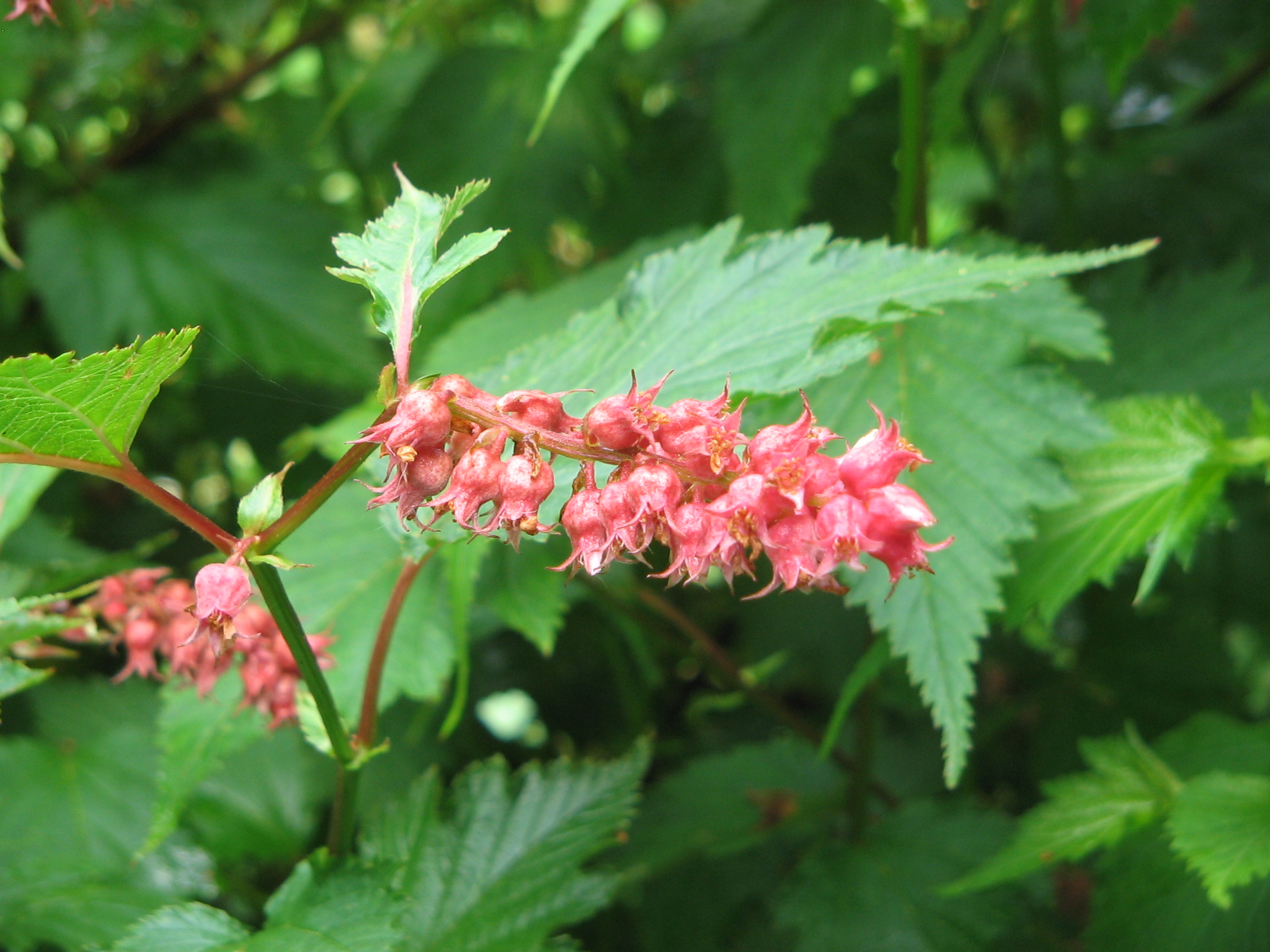 Neillia thibetica